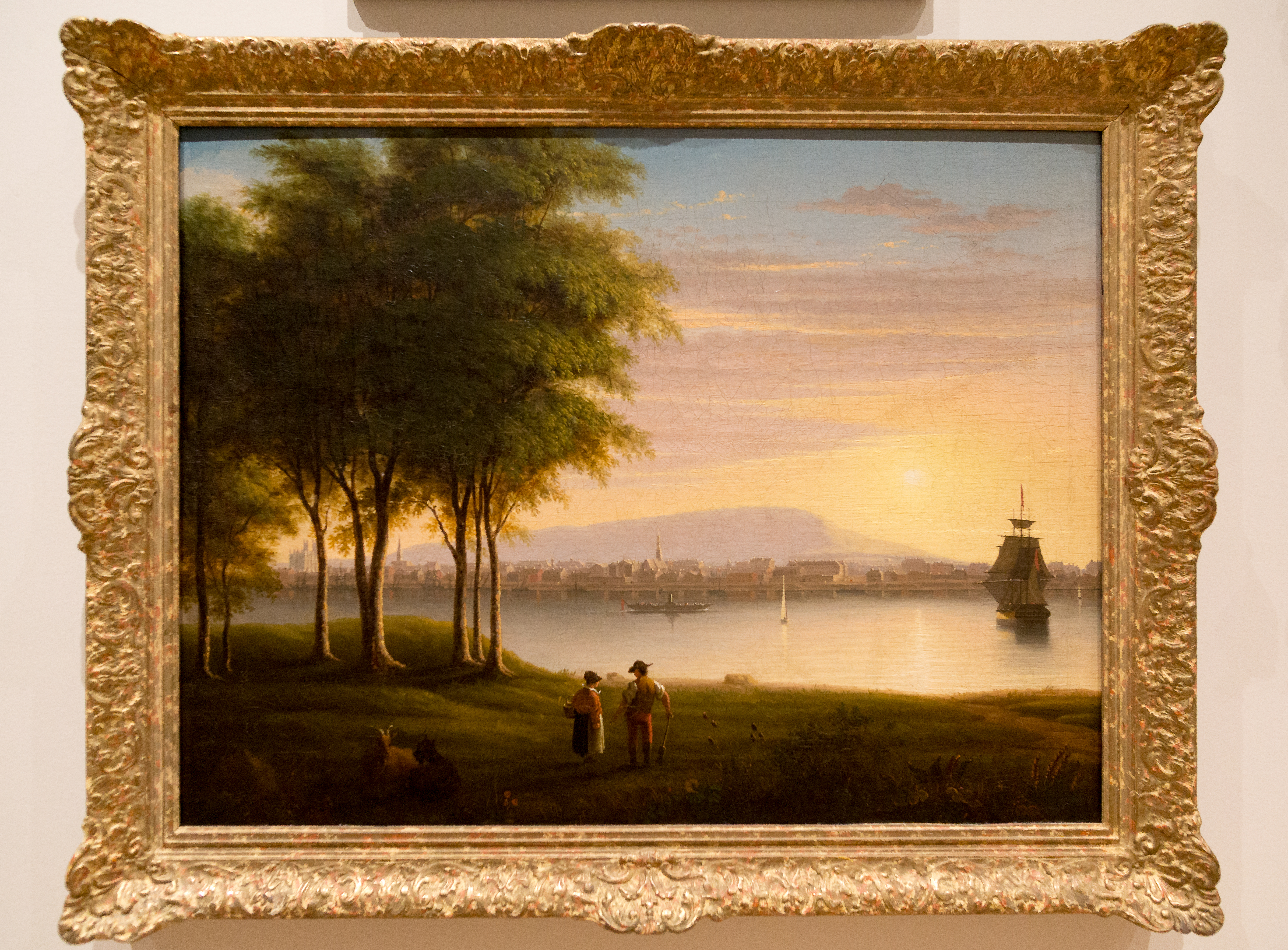 Montreal, from St. Helen's Island